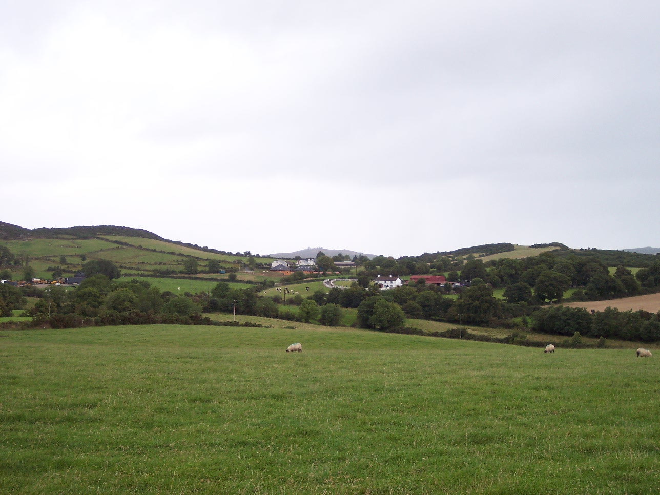 The view of the entrance to the Moyry Pass, behind which stood O'Neill's defences. Taken from the site of Lord Mountjoy's camp at Faughart Hill